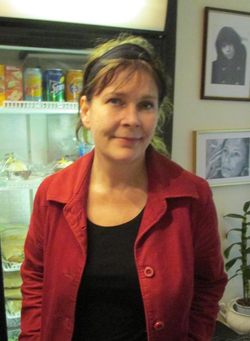 Swedish actress Tintin AnderzonPlace: Second Hand & Coffee, Köpmangatan 18, Stockholm, Sweden